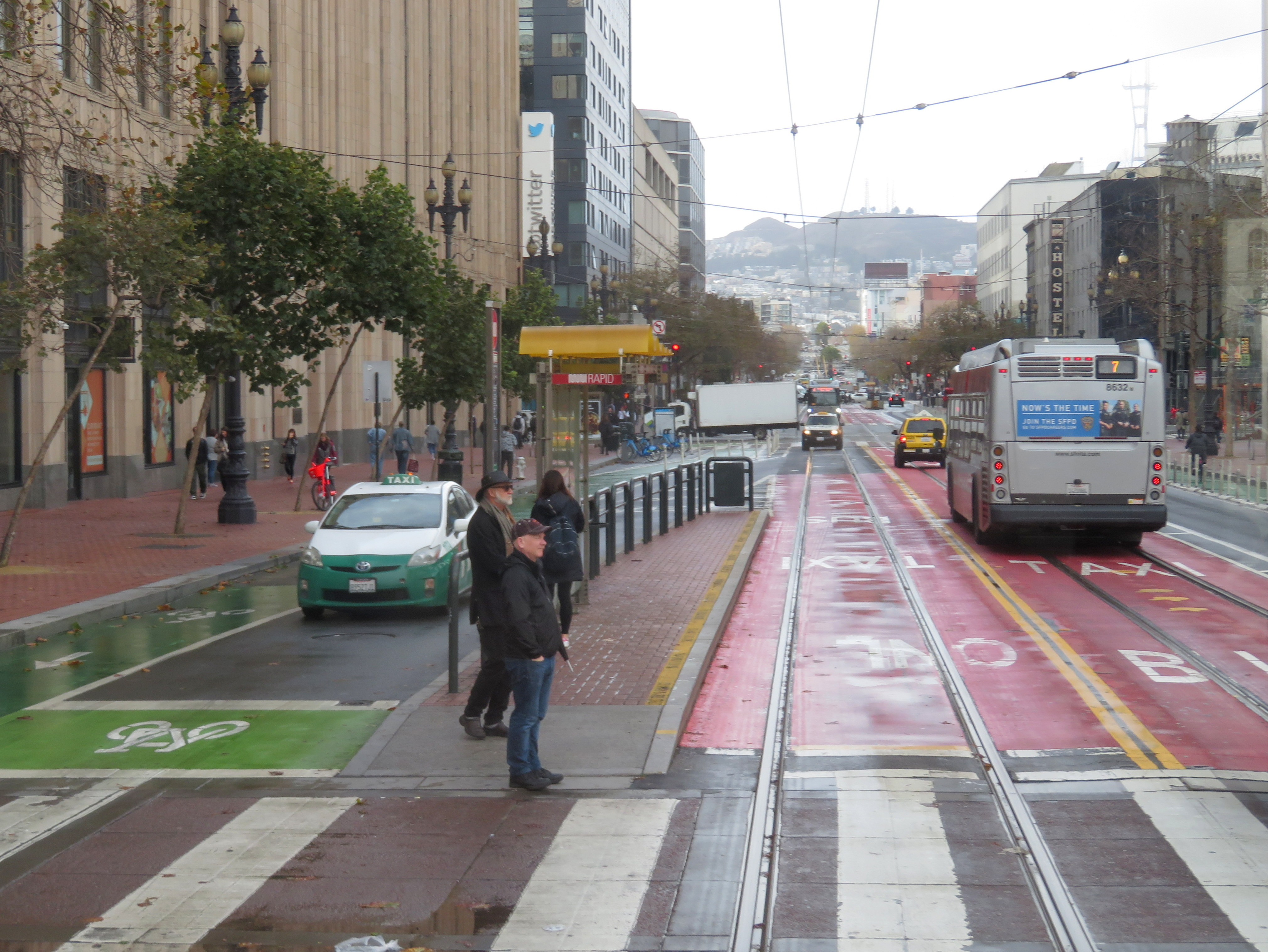 Inbound platform at Market and 9th Street, seen from the rear of a streetcar in November 2018